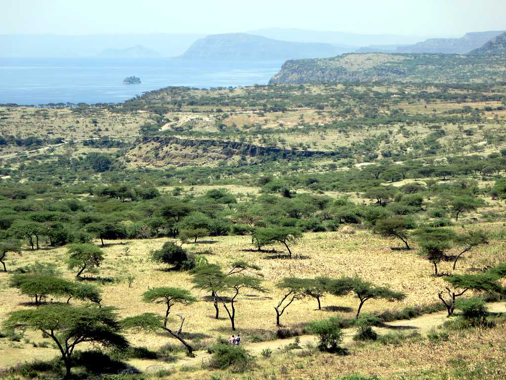 Lake Shala lies in a collapsed volcanic caldera 265 meters deep. Ethiopia's Rift Valley is part of a 4,000-kilometer fissure stretching from Syria to Mozambique. Acacia trees dot the landscape.